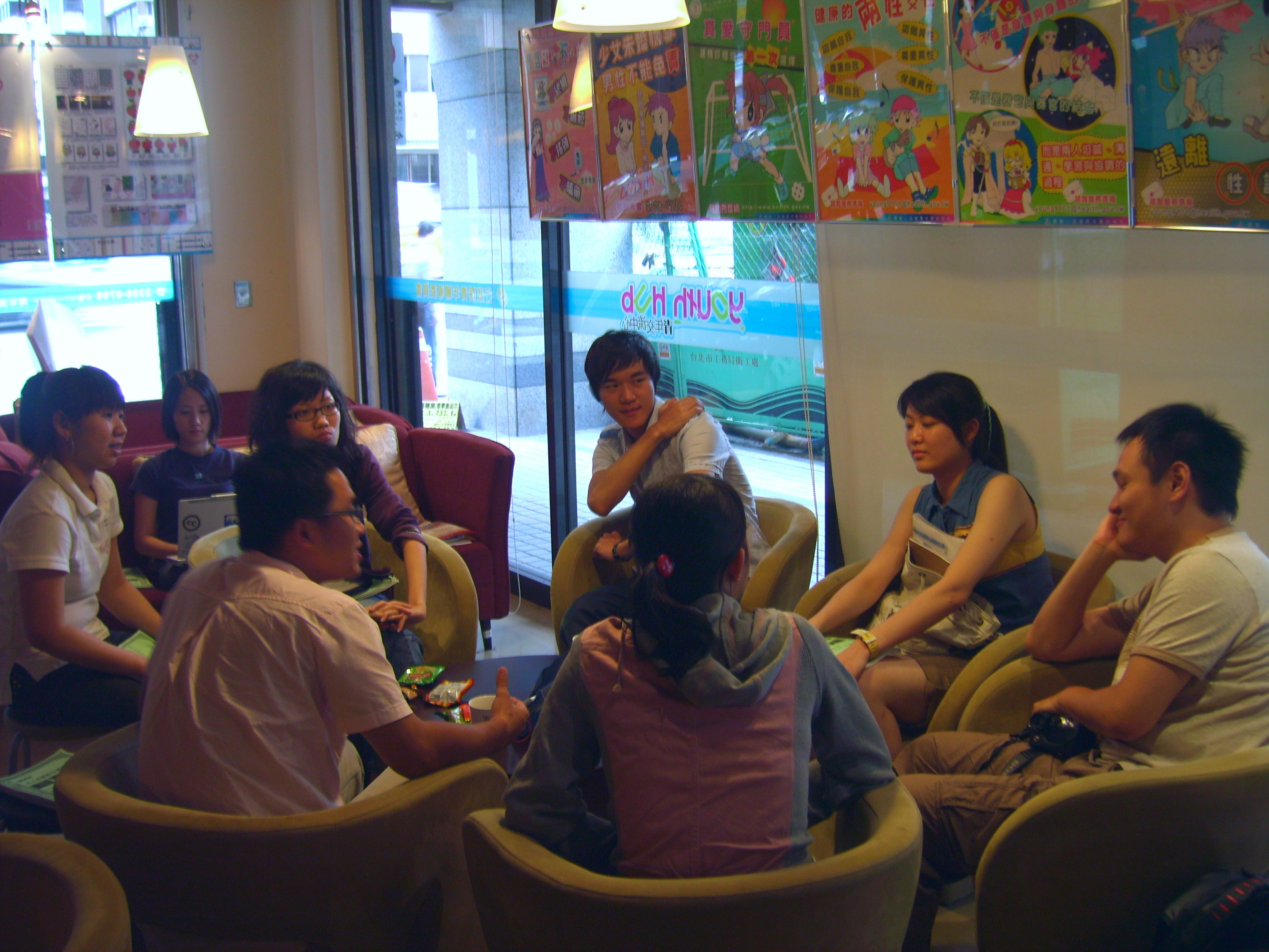 Group discussion time at the 4th Section of 2007 The 5th GYSD Taiwan Basic Volunteer Training.